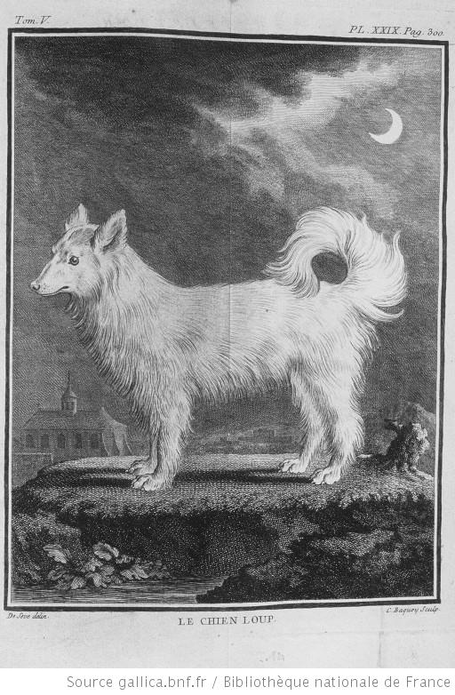 Deutscher Spitz